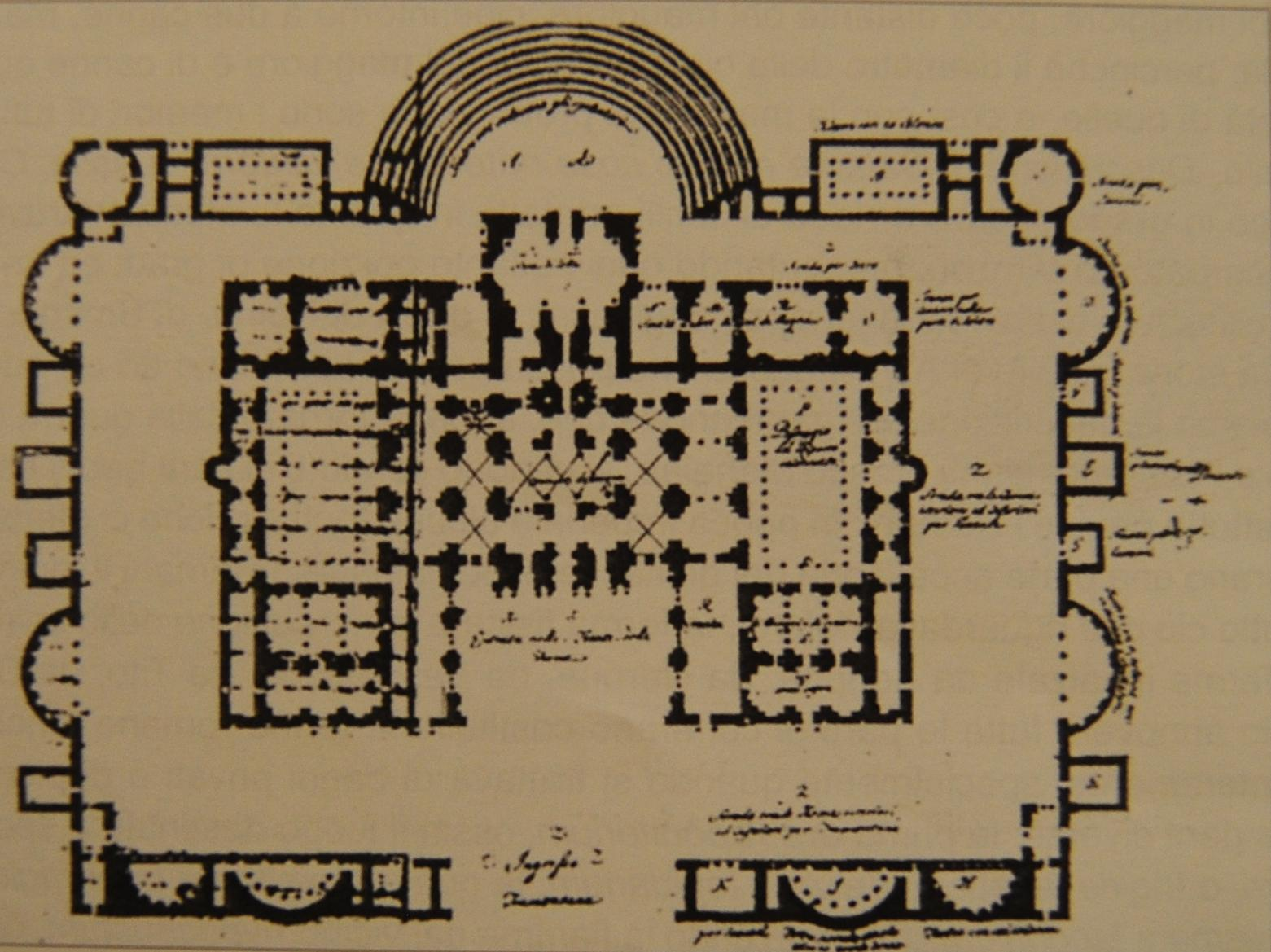 Plane of Roman Therms of Achille